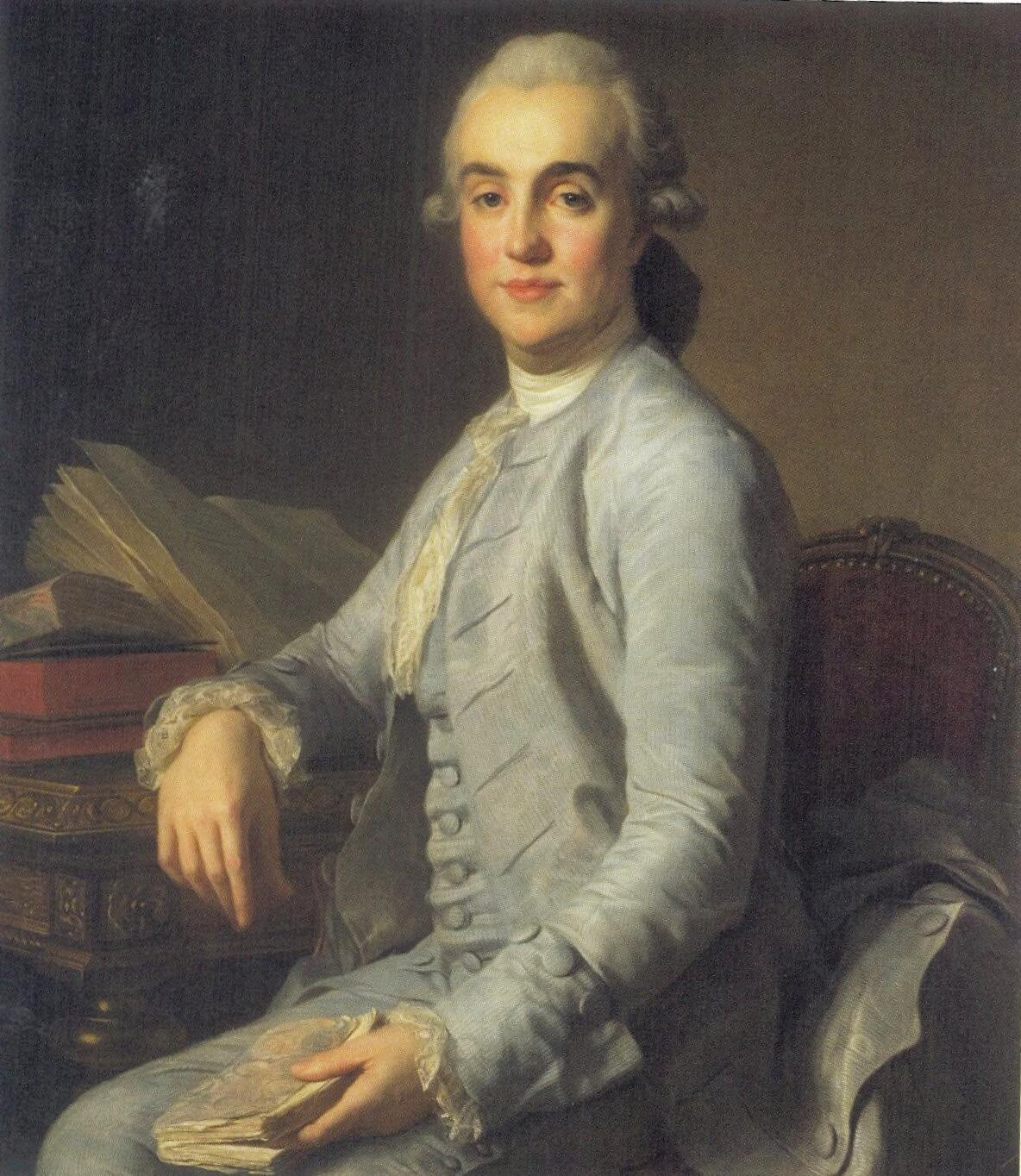 This image is available from the Netherlands Institute for Art Historyunder digital ID 233596. This tag does not indicate the copyright status of the attached work. A normal copyright tag is still required. See Commons:Licensing.